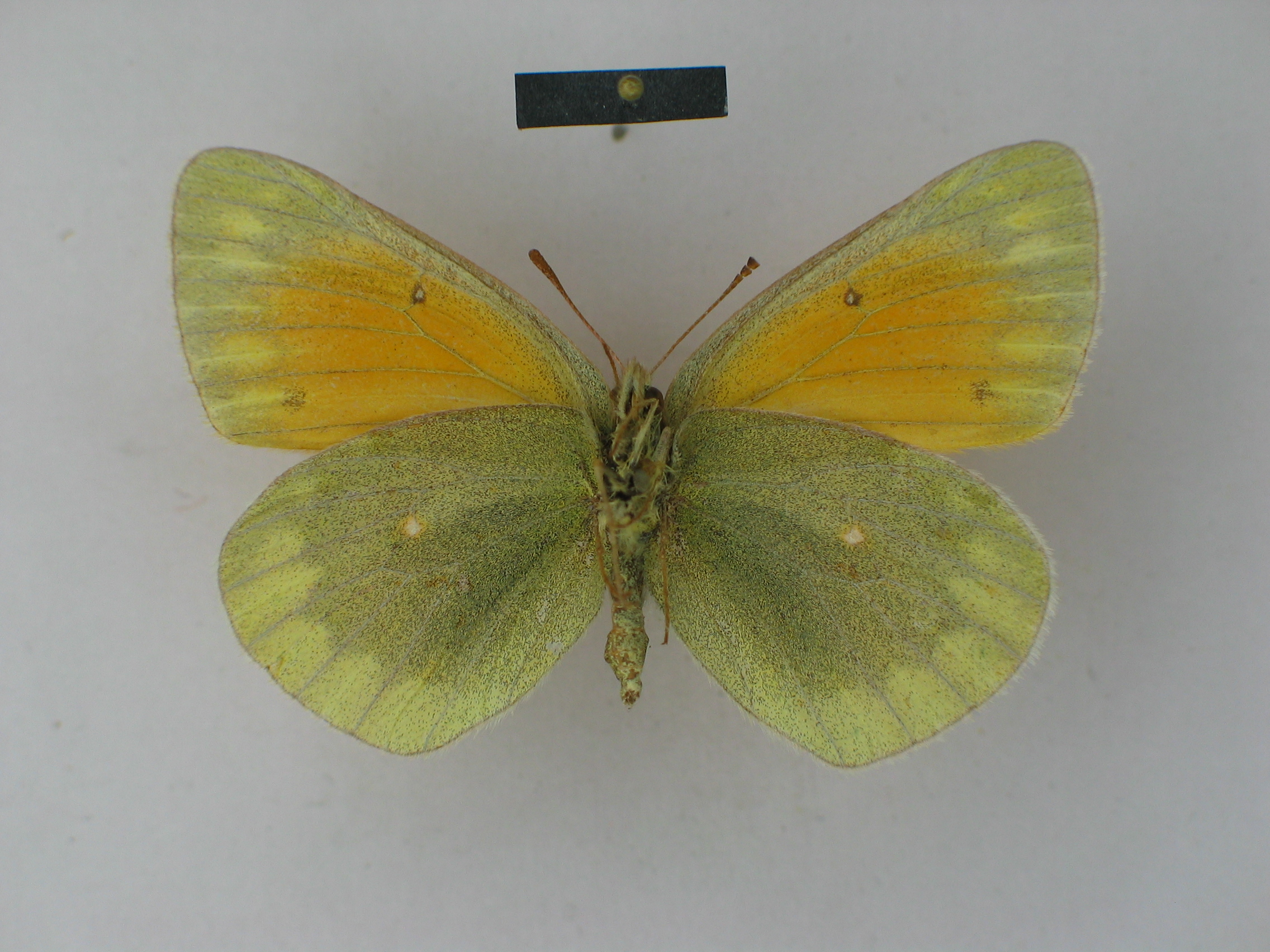 Specimen of the species Colias lada from the collection of the Museum für Naturkunde; ♀ ventral side; scalebar=1 cm